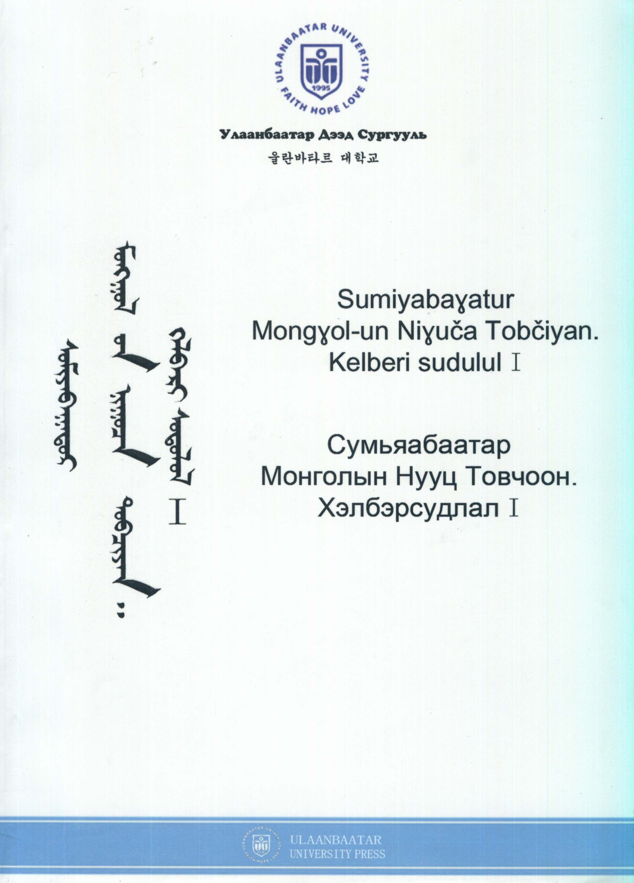 B. Sumiyabaatar/Б.Сумьяабаатар, "Монголын Нууц Товчоон, Хэлбэрсудлал I", "The Mongolian Secret History. Morphology I", 499 p., 2012, ISBN 978-99962-842-6-7